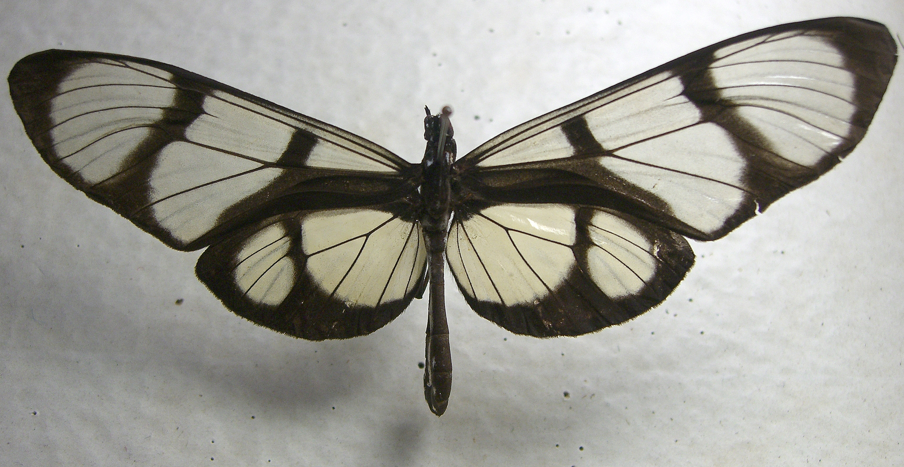 Description: Methona confusa, (male)